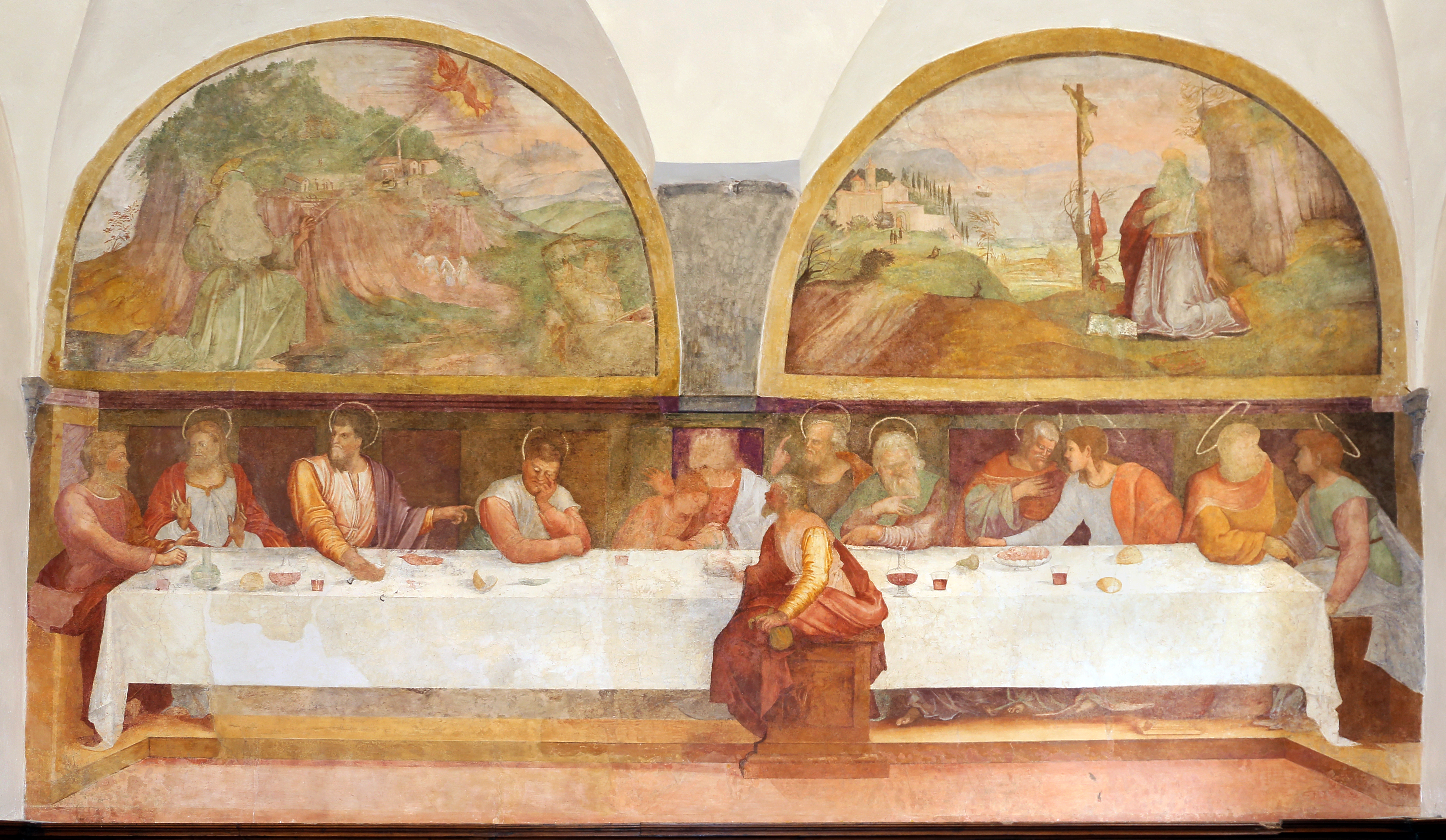 Giaccherino convent - Refectory